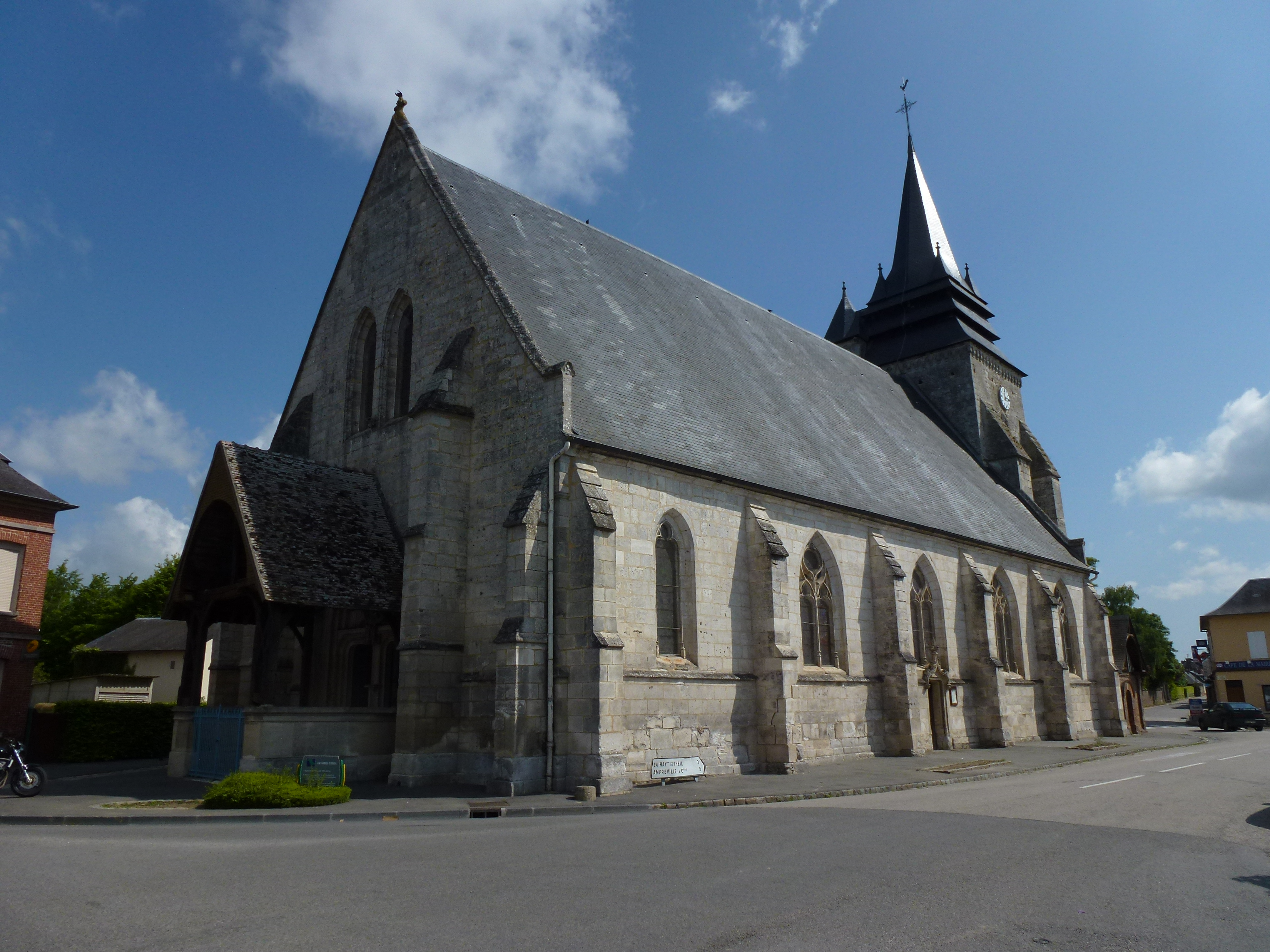 Le Gros-Theil (Eure, Fr) église